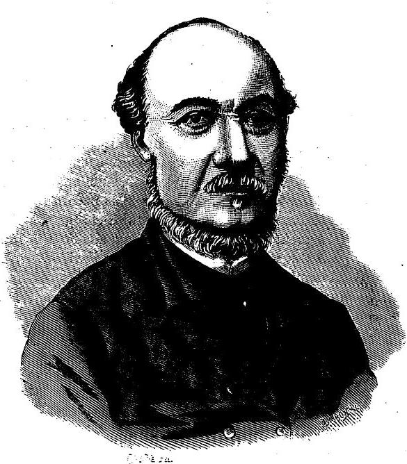 Portrait of the French politician Jules Ozenne